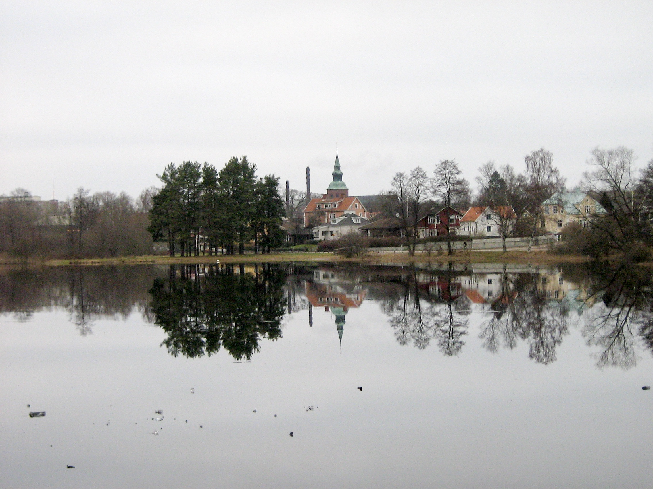 Linneasjön is a very small lake near the city centre. Reflection in a very thin ice layer.